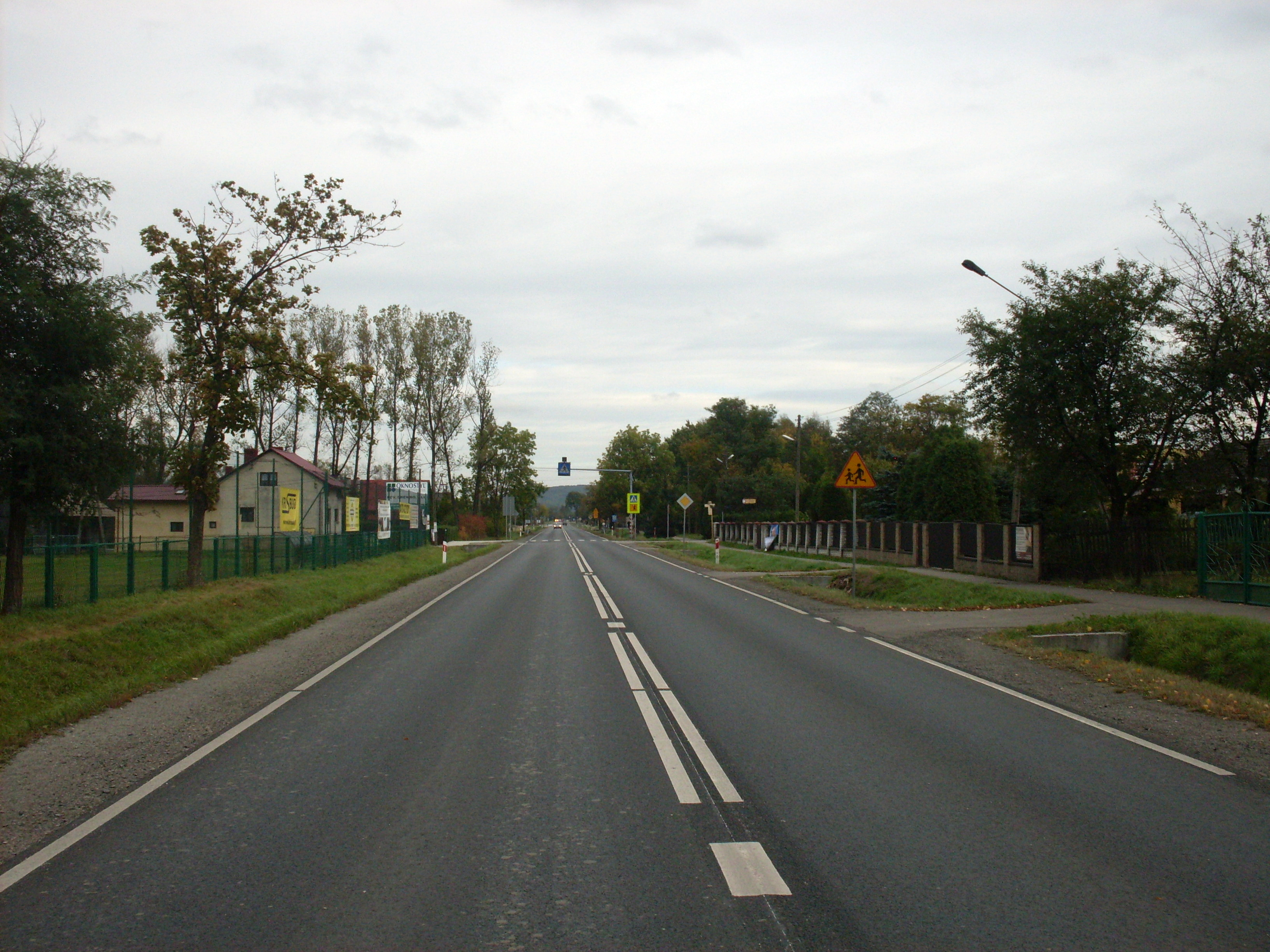 DK79 Wola Filipowska